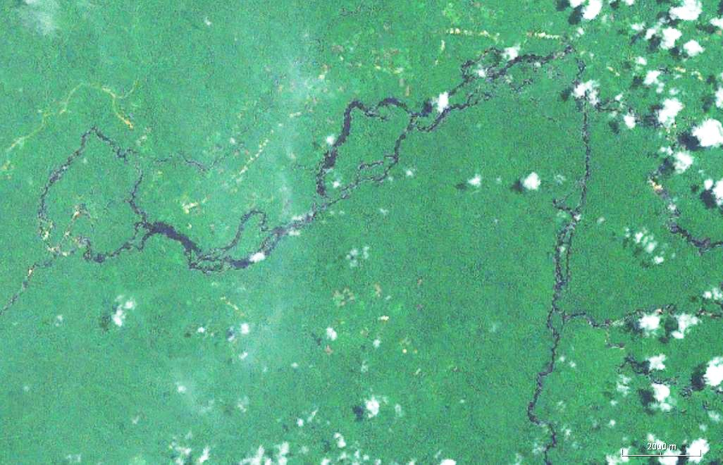 Memve'ele Reservoir